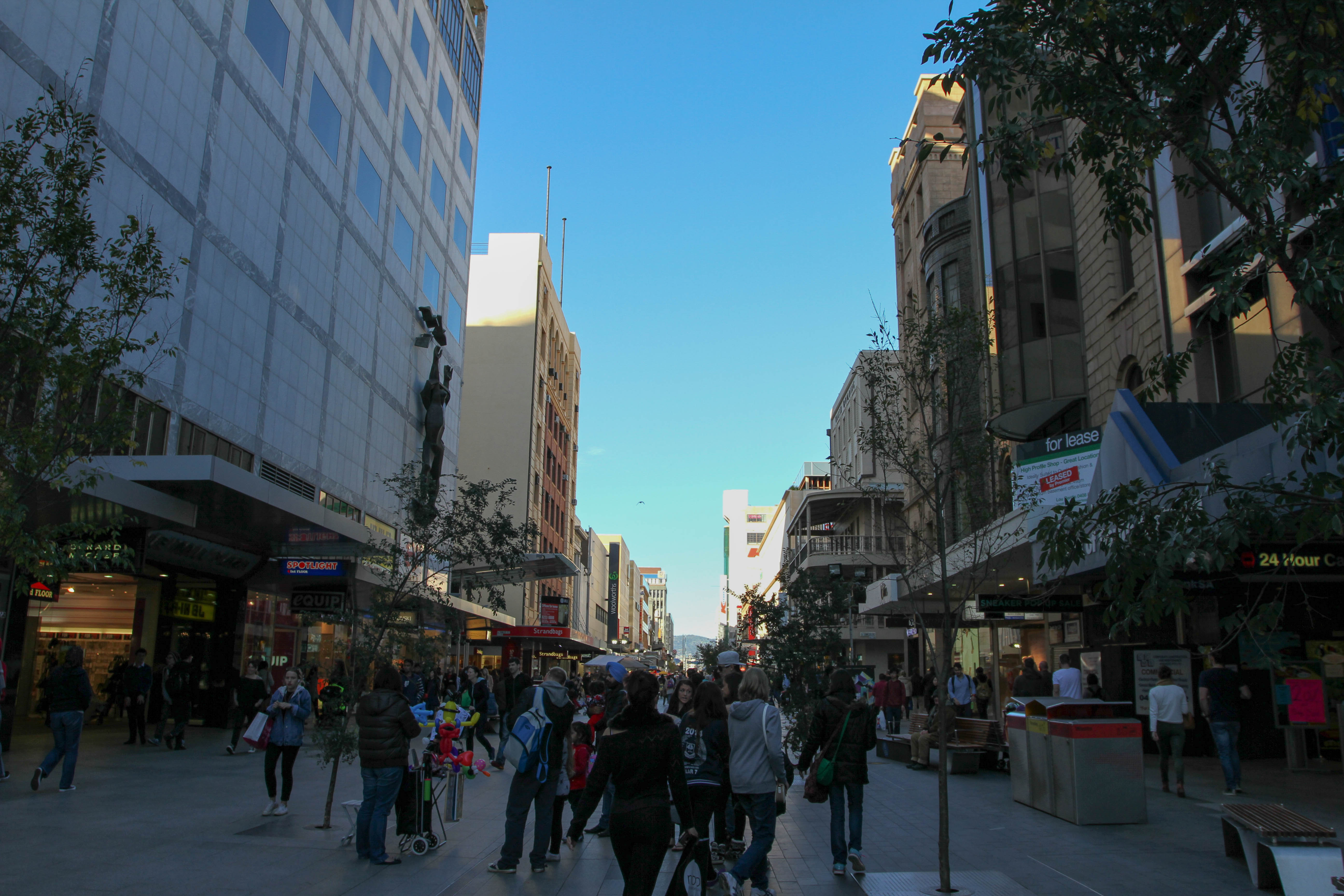 Rundle Mall, Adelaide, SA.